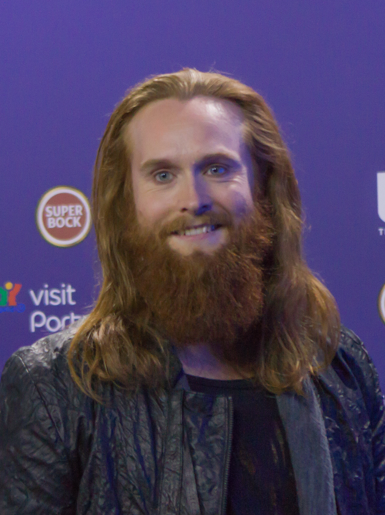 At the 2018 Semi Final 2 qualifiers press conference